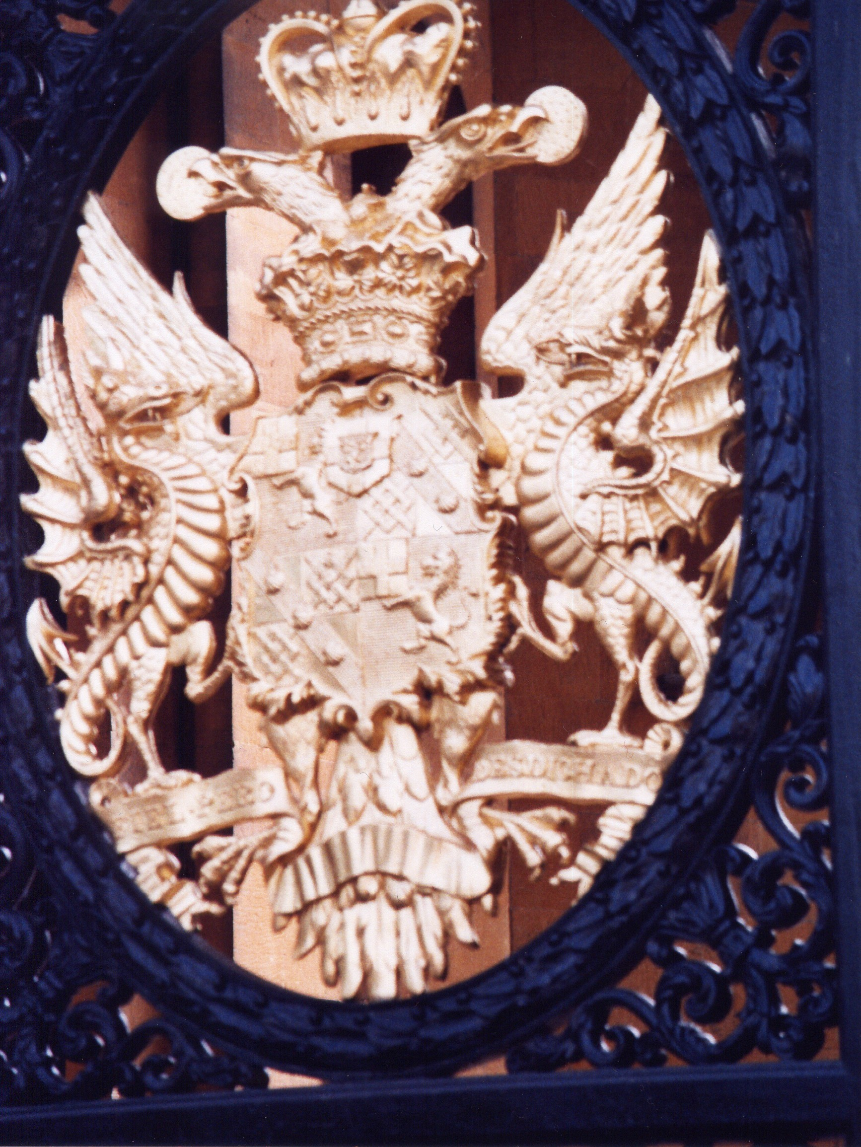 Part of the highly ornate gates at Blenheim Palace (seat of the Dukes of Marlborough, family of a certain Winston Churchill). Nice Imperial Eagle